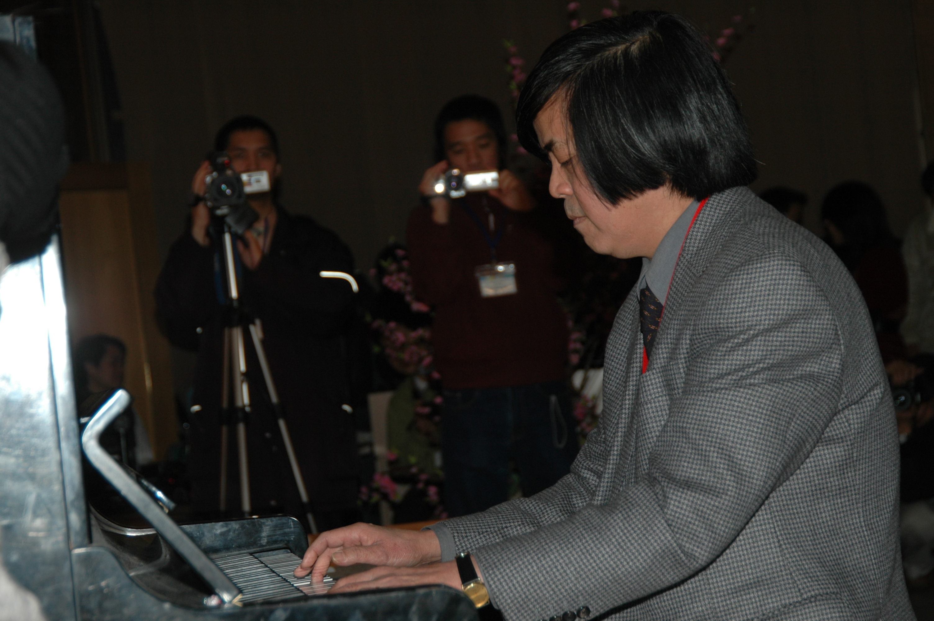 Vietnamese Economist Trần Văn Thọ in Tết Festival held by VYSA in Tokyo.